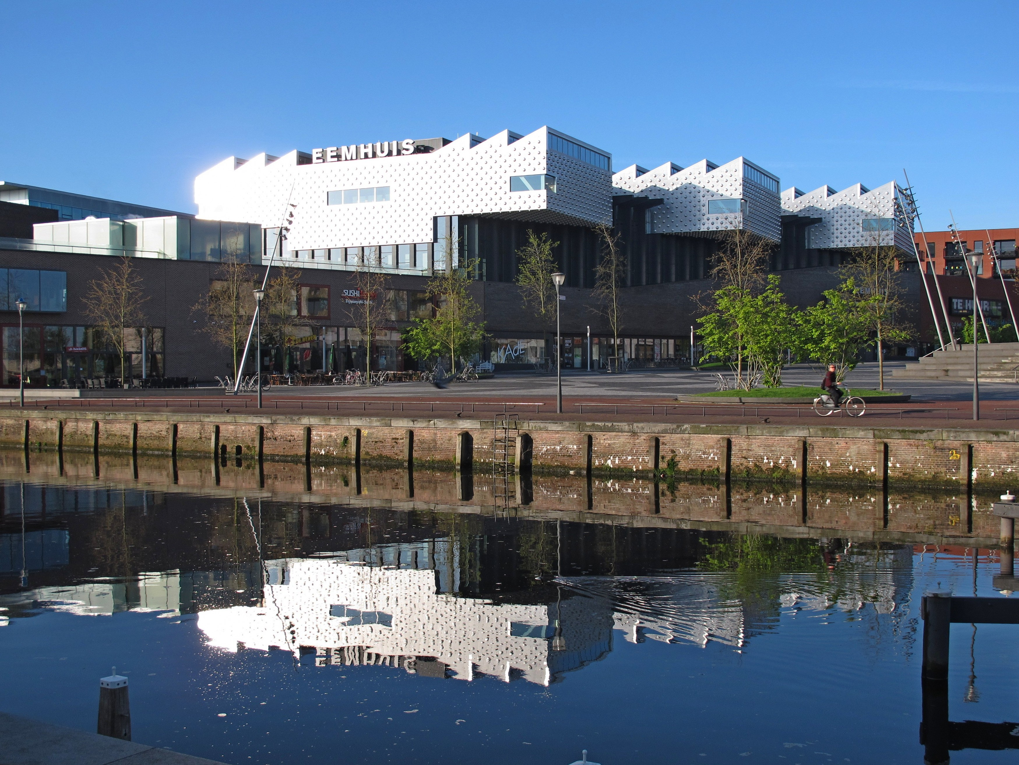 Eemhuis Amersfoort - exterior of the Eemhuis, seen from Grote Koppel. In the front the river Eem